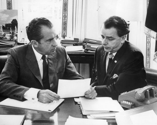 Senator Robert Byrd (D-WV) meets with President Richard Nixon.